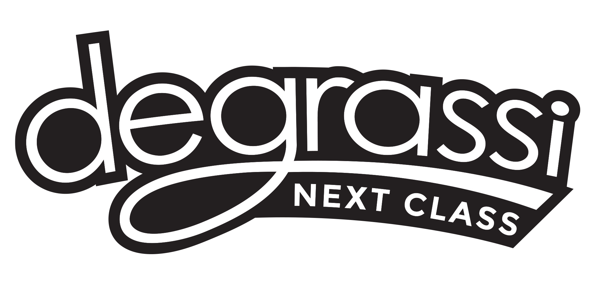 Degrassi: Next Class logo